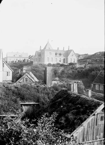 The Governor's villa in Tórshavn, Faroe Islands